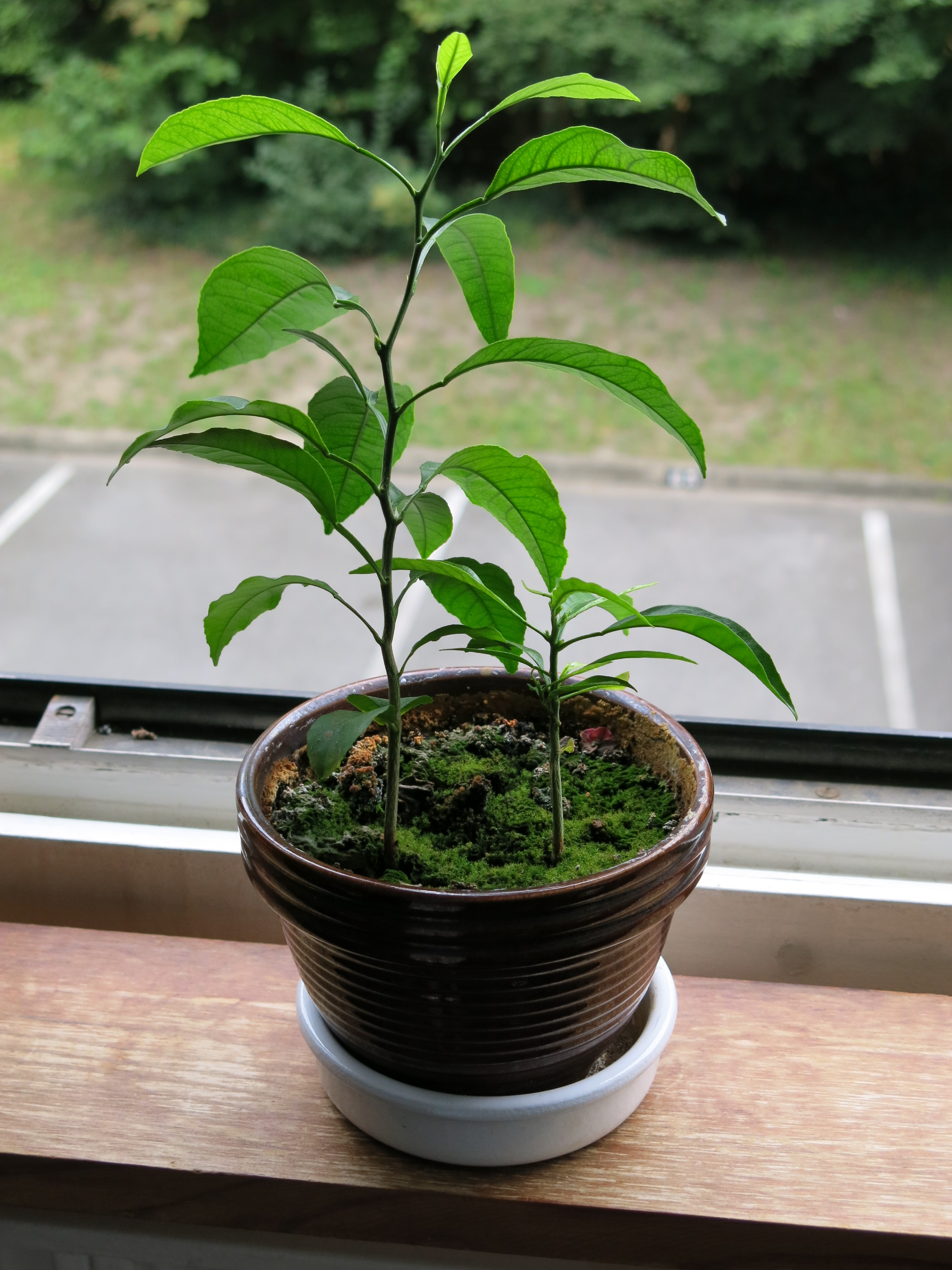 Citrus sinensis seedlings.